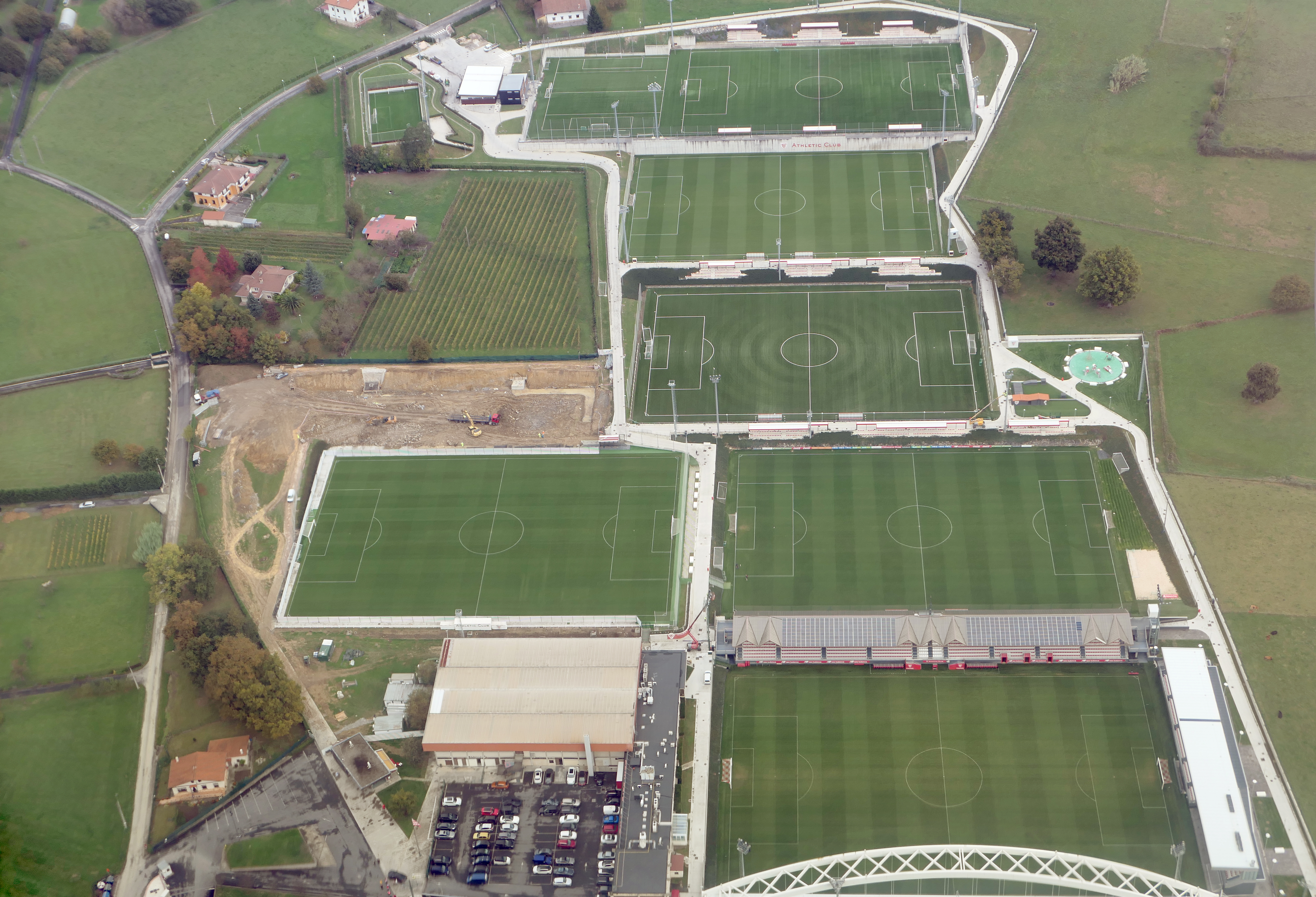 An aerial view of Athletic Bilbao's training grounds at Lezama.